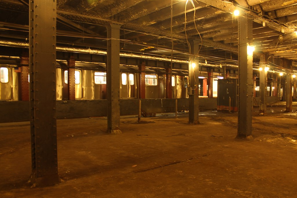 MTA tour of the abandoned Williamsburg Bridge Railway (trolley) terminal next to the Essex St. J/M/Z station. More info on this terminal can be found here: The M train is visible just beyond the low retaining wall.